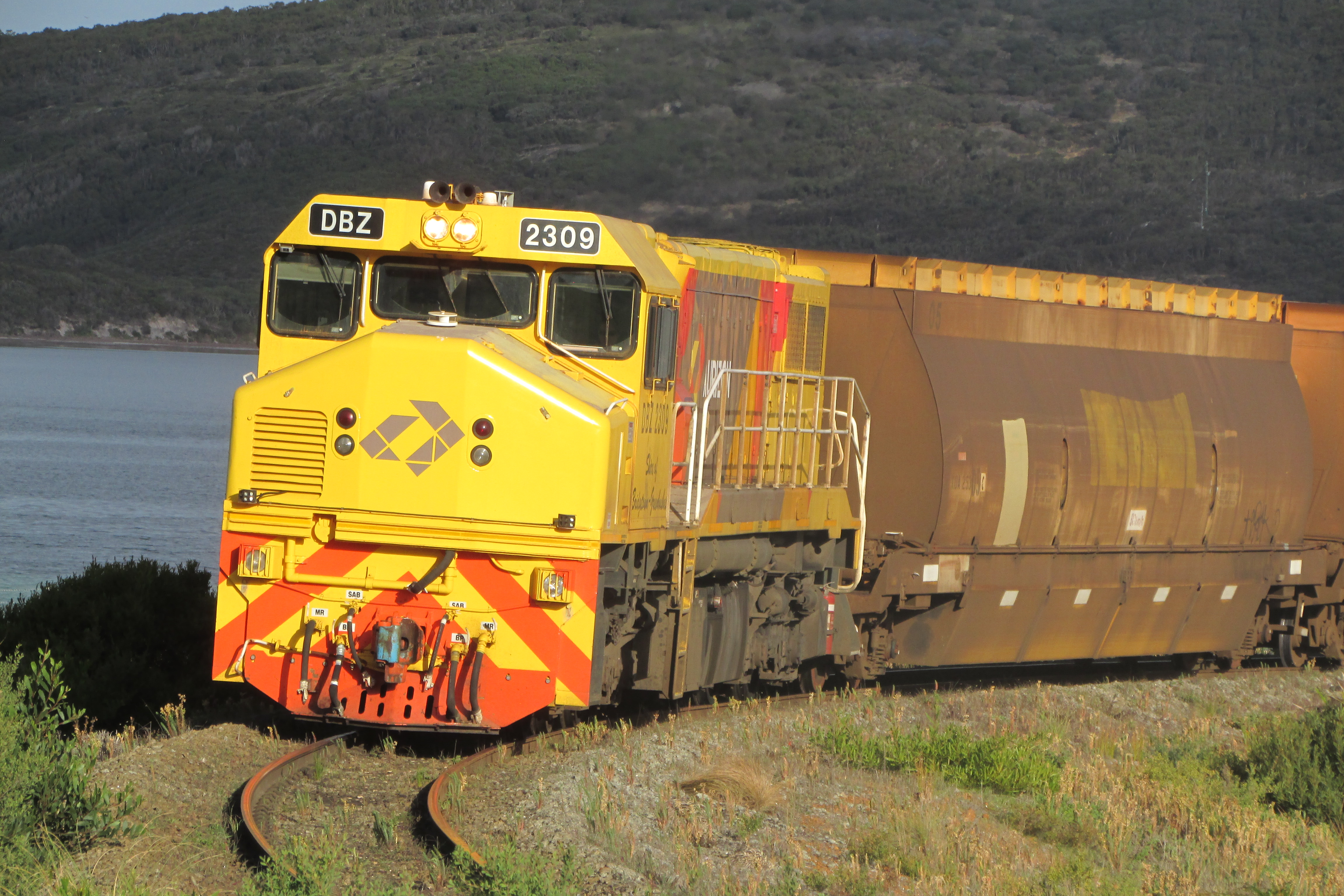 Ex-WAGR DB class locomotive DBZ 2309 at the head of a woodchip train near Albany, Western Australia